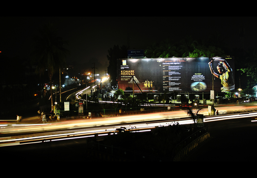 Bhubaneswar at Night